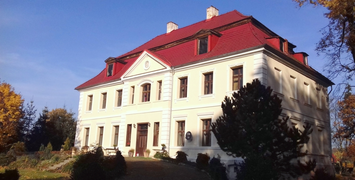 Front elevation of the Chichy Palace